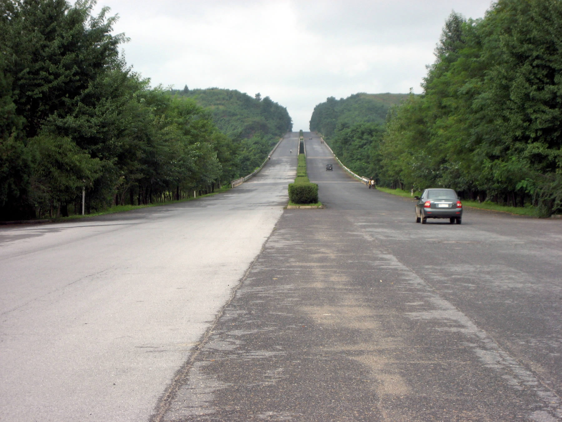 The Reunification Highway in North Korea